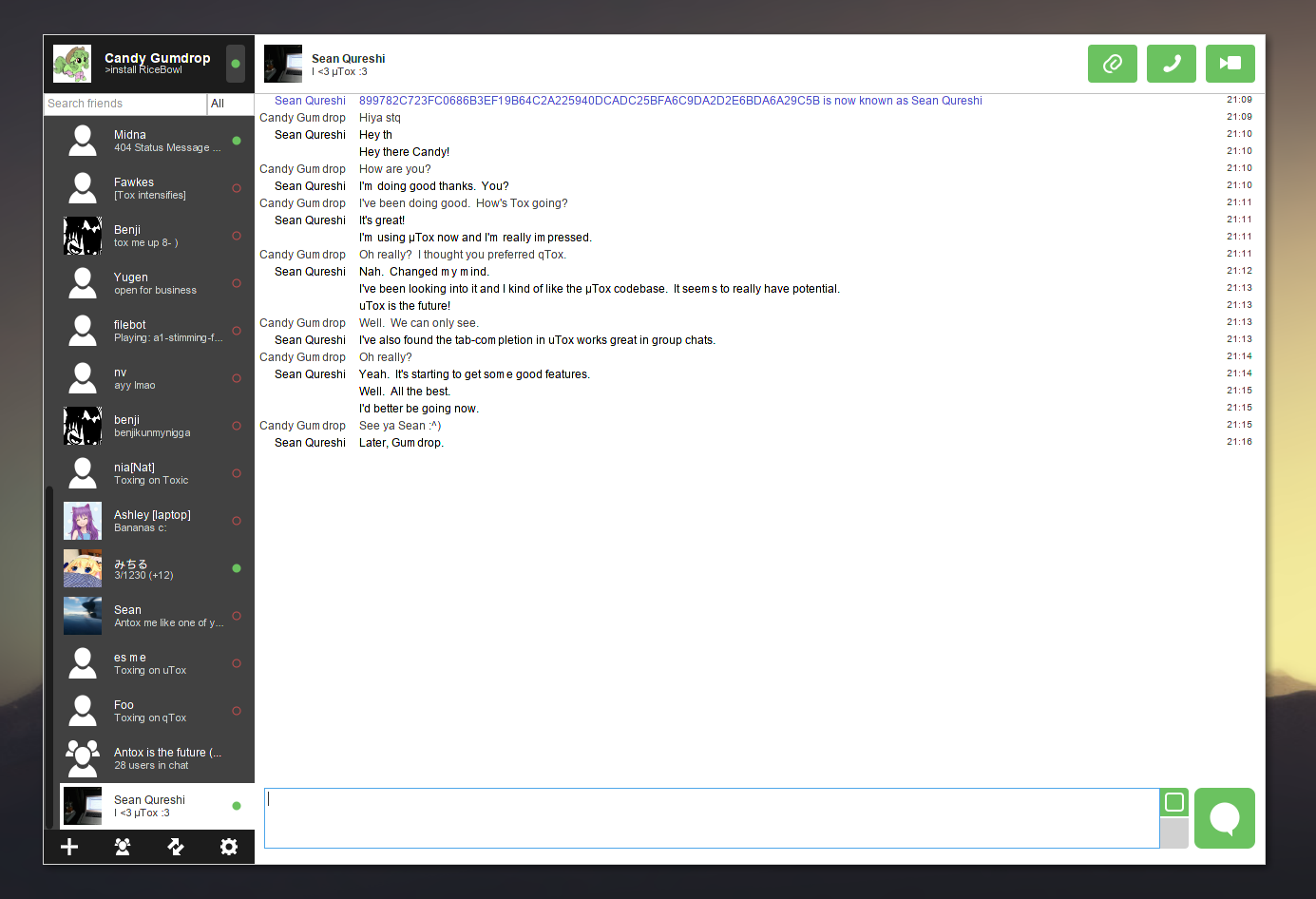 Screenshot of µTox version 0.2.o running on Gentoo GNU/Linux